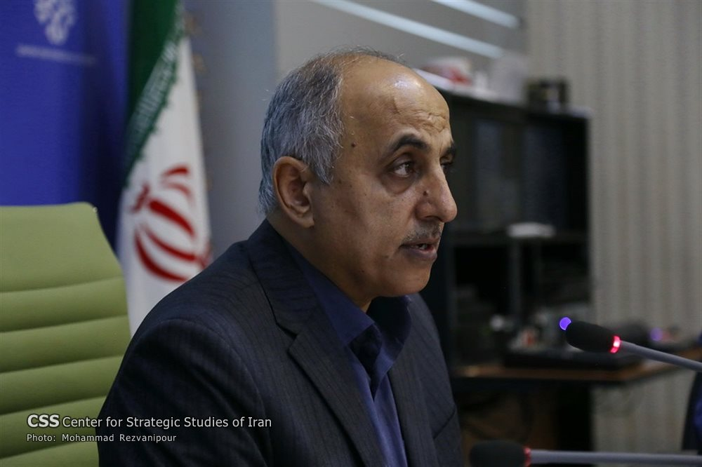 Ehsan Houshmand, Iranian ethnologist